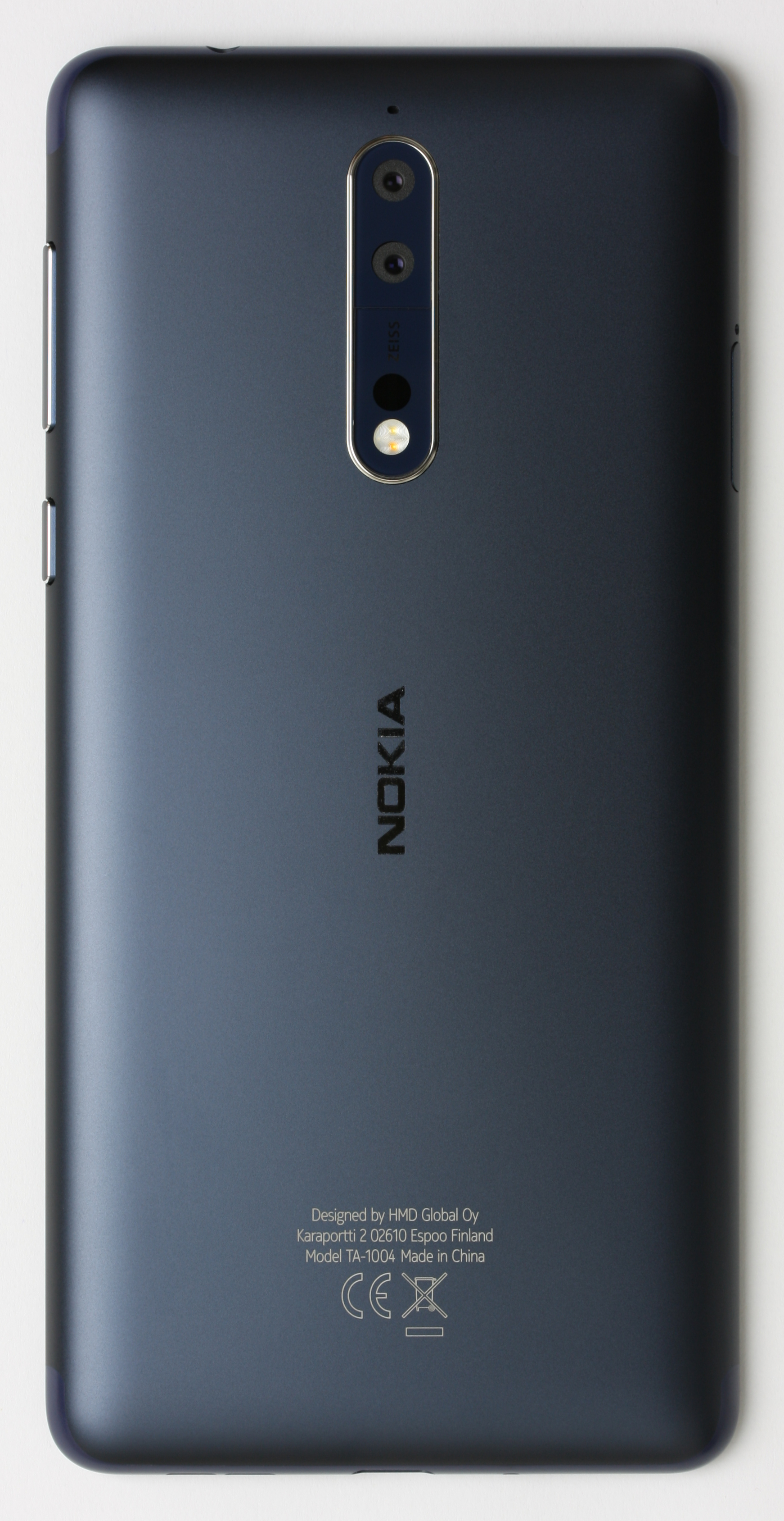 The back side of a Nokia 8